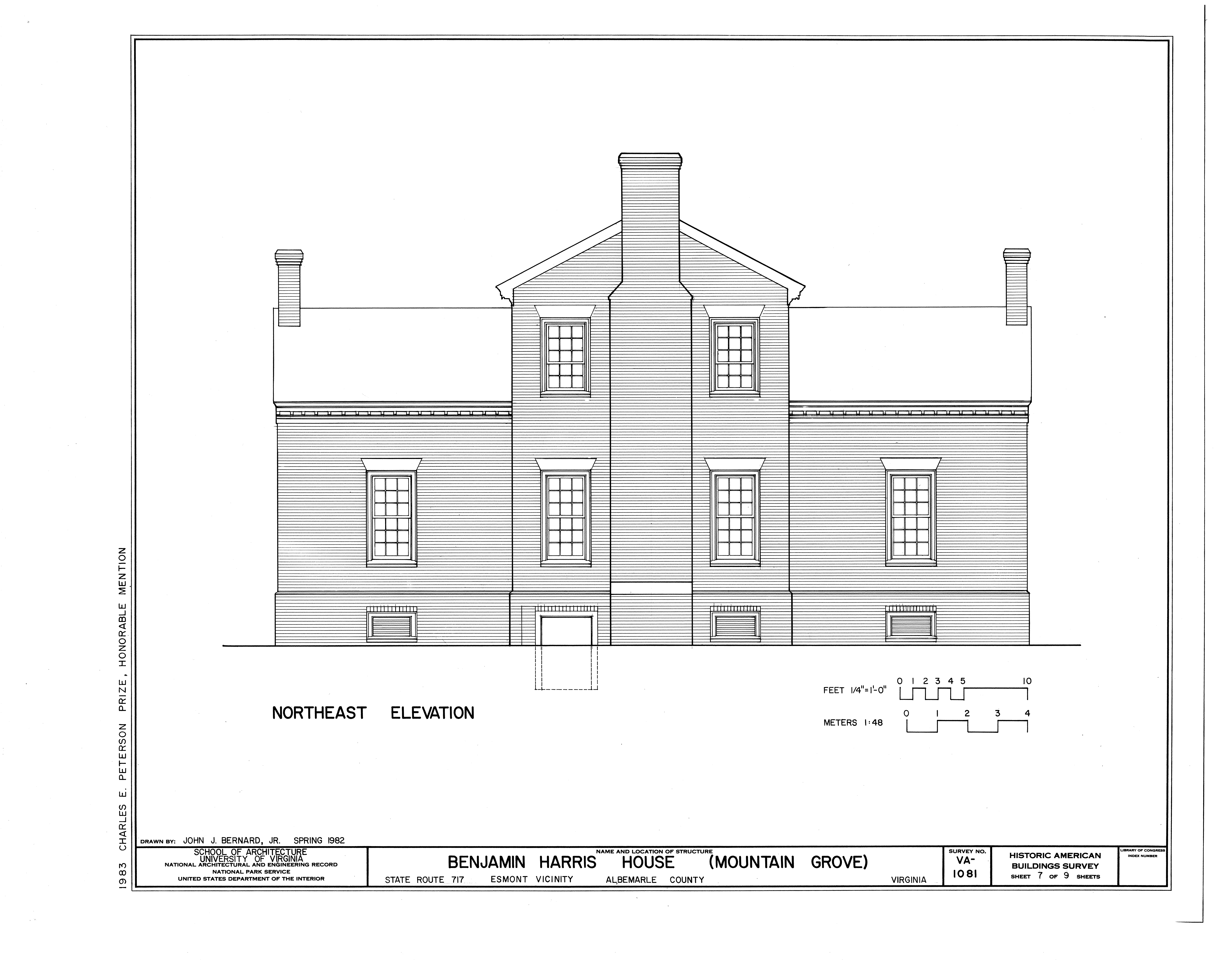 University of Virginia, sponsor; Bernard, John J, delineator